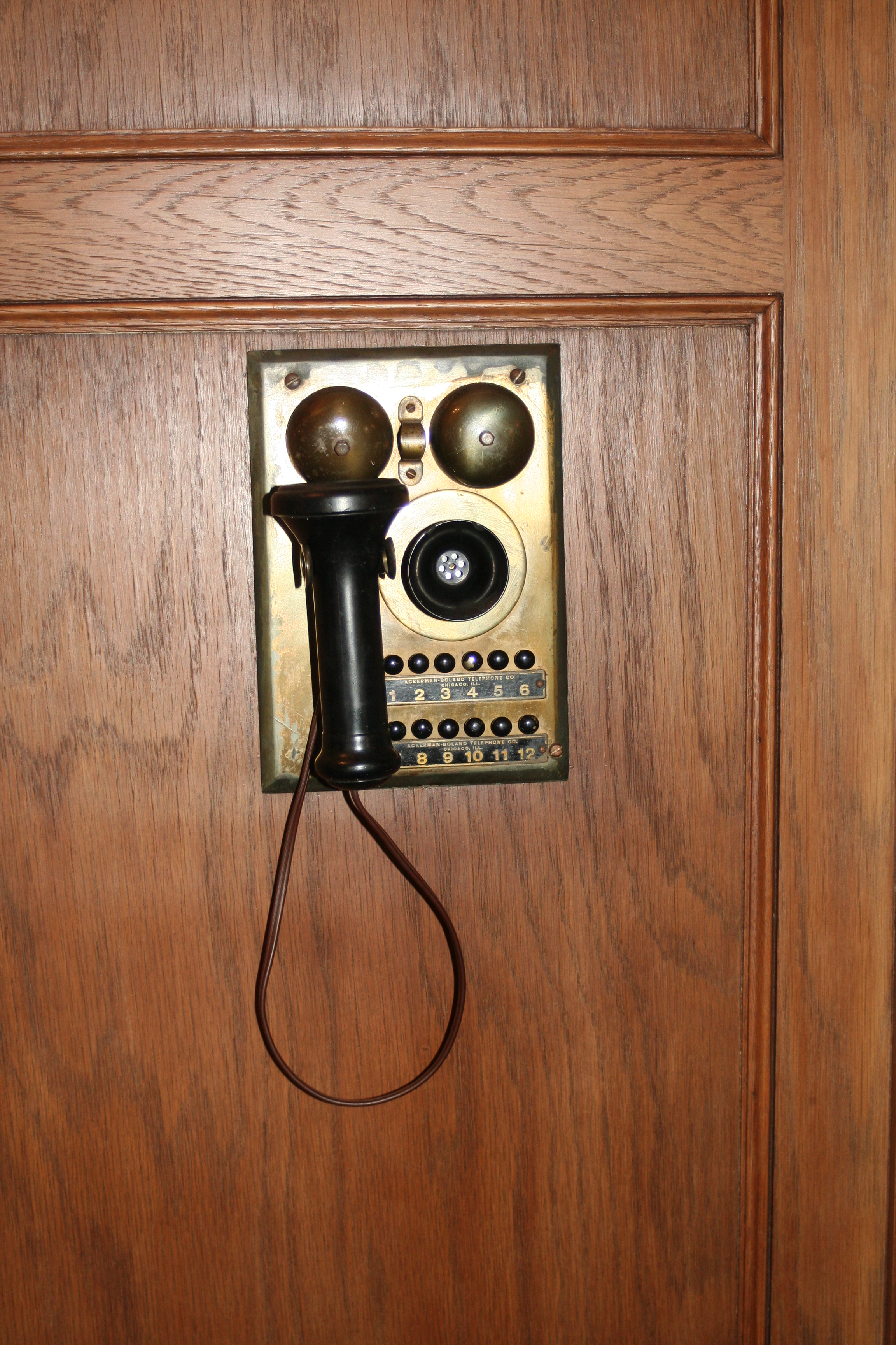 Minnesota Governor's Residence, telephone instrument in south hallway.